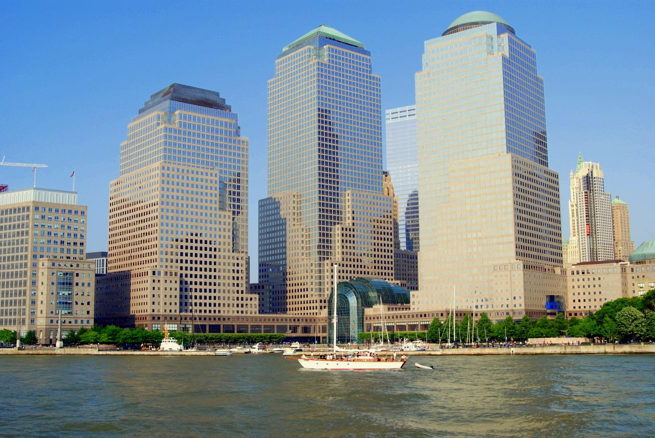 World Financial Center, New York